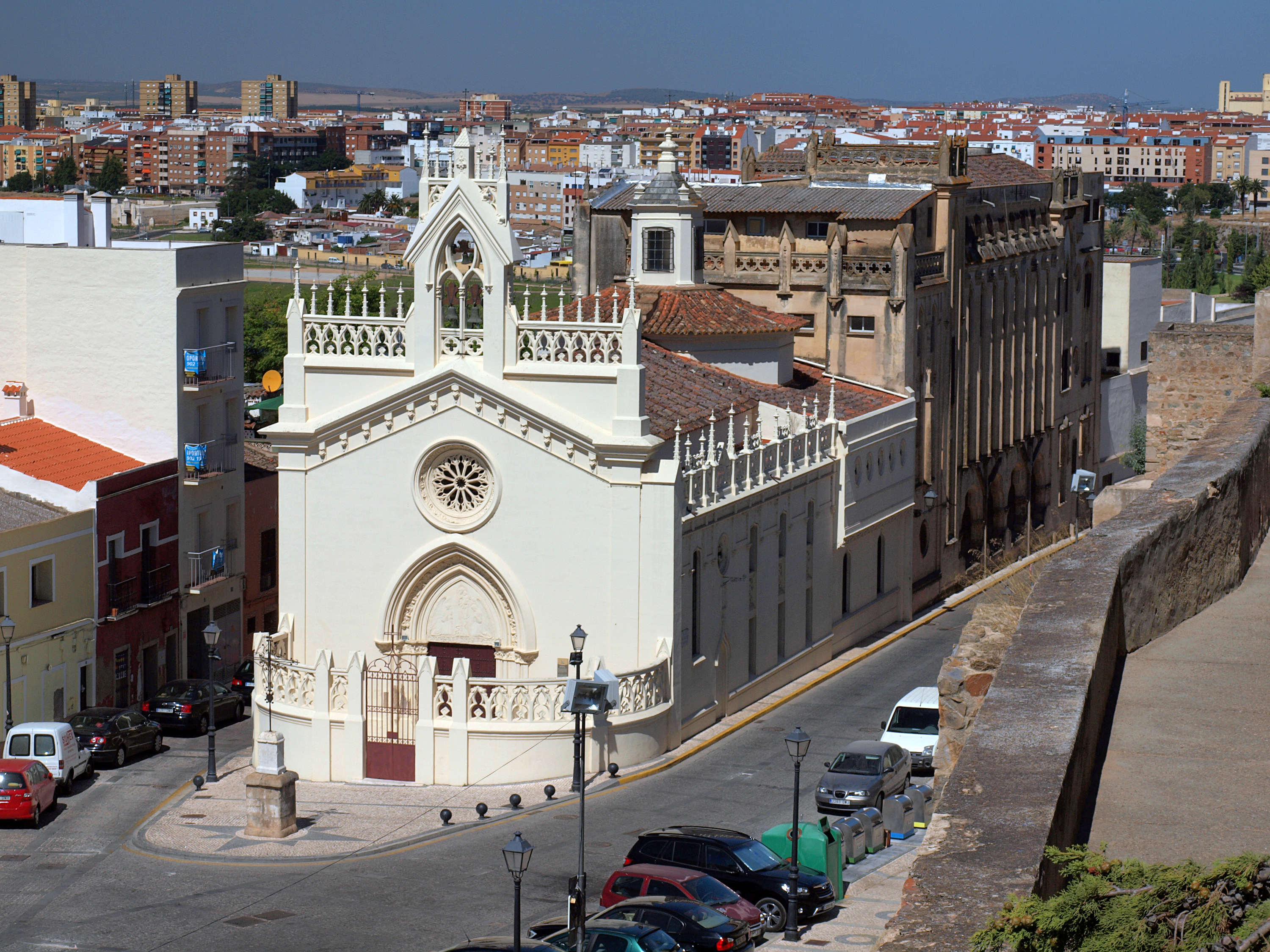 Convent of San Jose (Las Adoratrices), near the Alcazaba of Badajoz